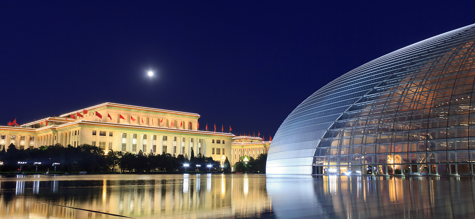 The National Centre for the Performing Arts and The Great Hall of the People with Full Moon at Blue Hour